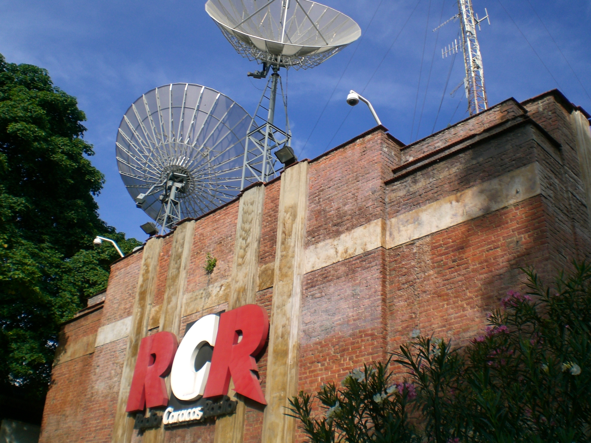 RCR (Radio Caracas Radio) building, Caracas, Venezuela.